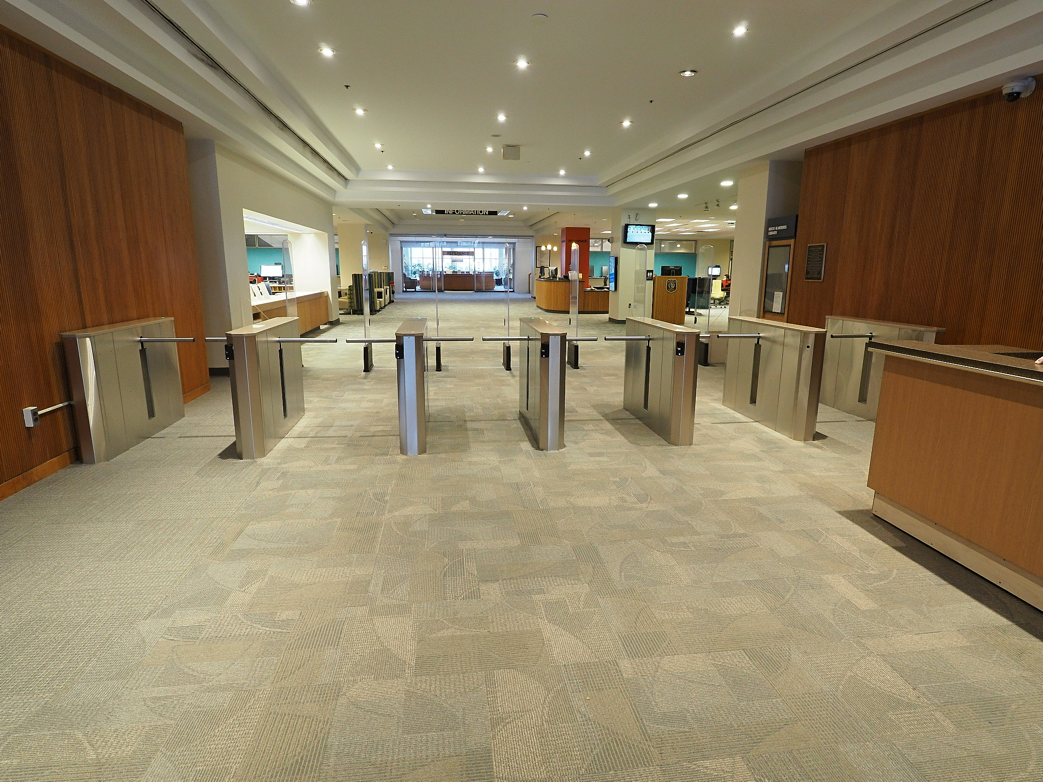 These Turnstiles are fully integrated with the Access Control System to function automatically with alarms should intrusion occur.